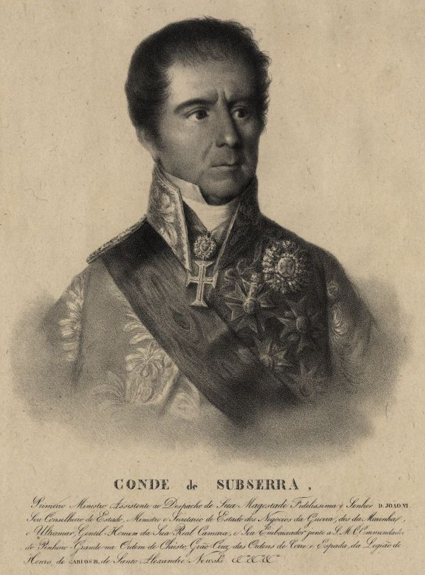 Manuel Inácio Martins Pamplona Corte Real, count of Subserra, a Portuguese politician of the early 19th century.